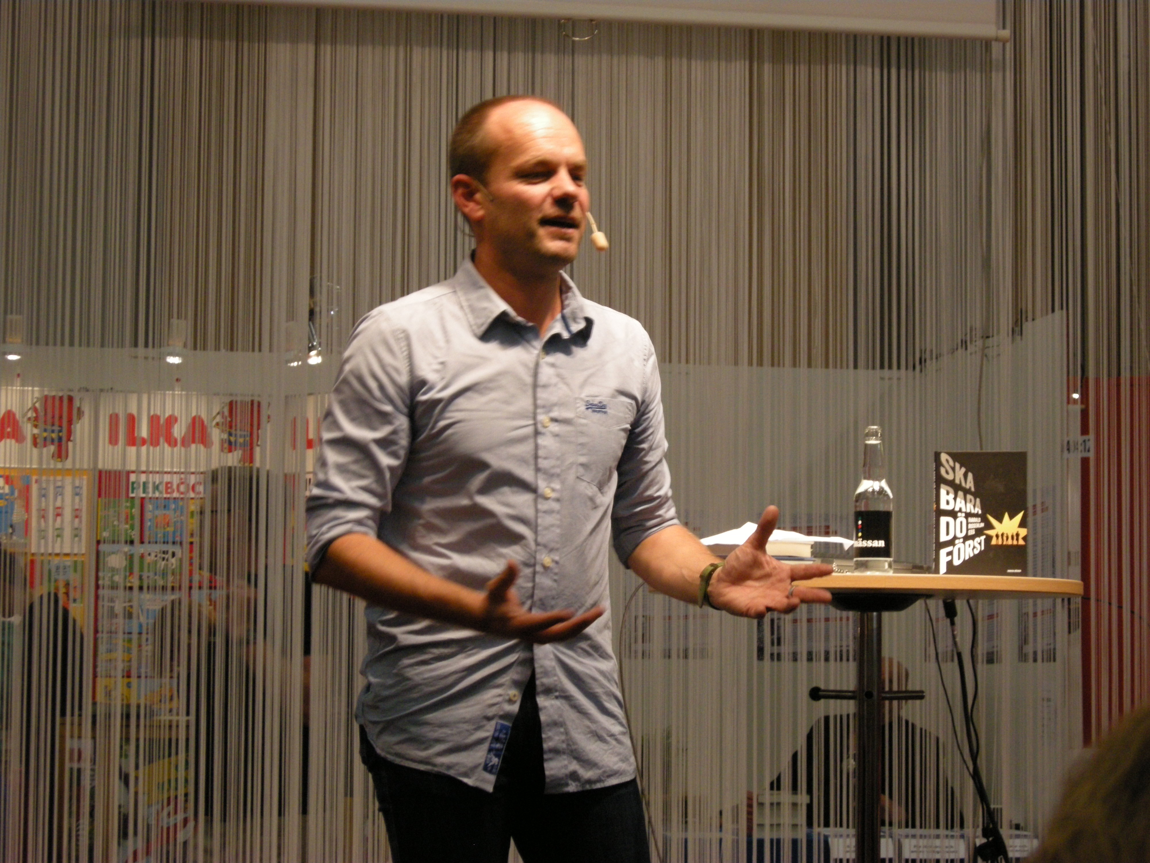 Norwegian writer Harald Rosenløw Eeg at Göteborg Book Fair 2012